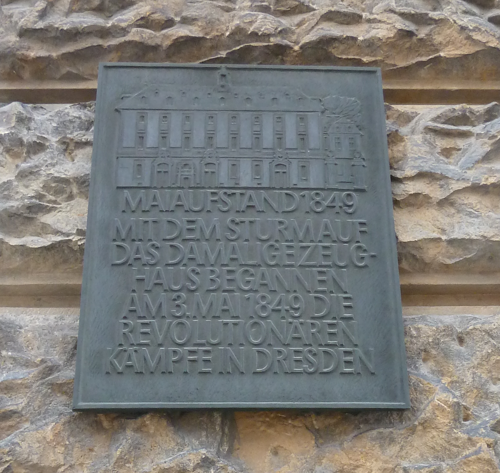 Plaque commemorating the 1849 revolution in Dresden